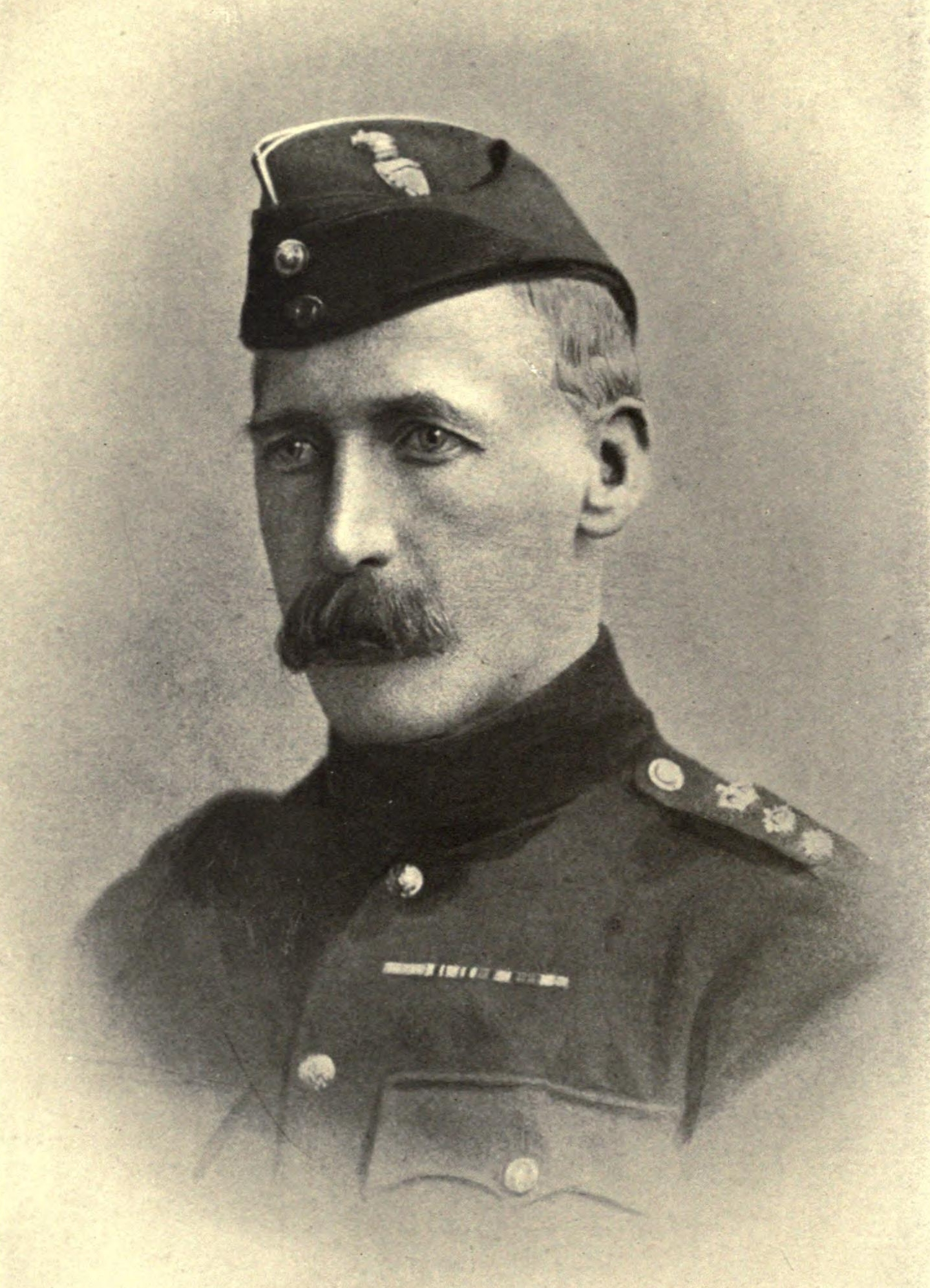 Photograph of Col. Maurice Moore CB (10 August 1854 – 8 September 1939); an Irish author, soldier and politician.